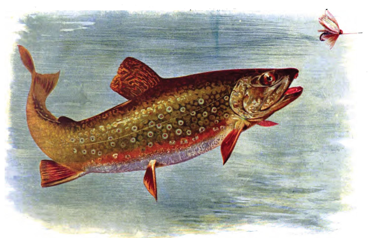 Color Plate Brook Trout from American Fishes by Goode and Gill (1903)